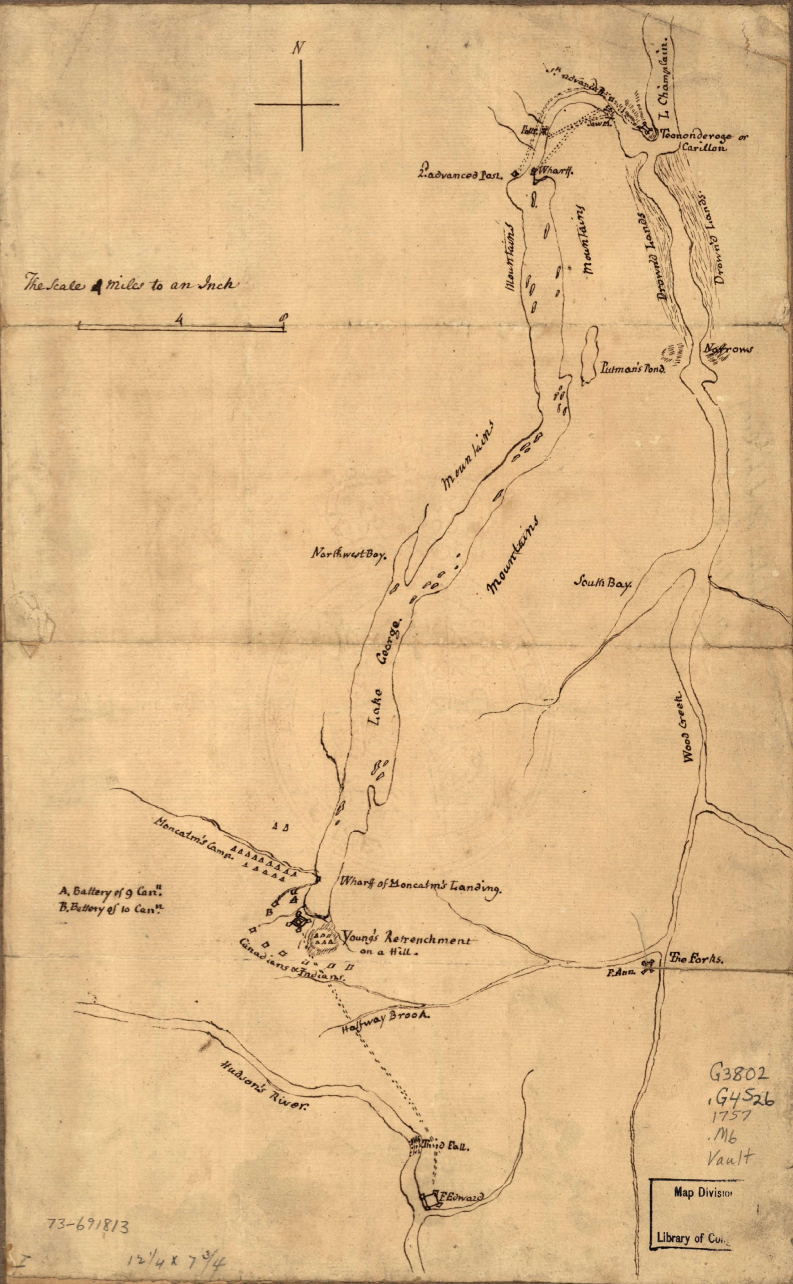 A hand-drawn map by British military engineer, Colonel James Gabriel Montresor, of the situation of the 1757 Siege of Fort William Henry. The title as originally publisher: Plan of the attack on Fort William Henry and Ticonderoga; showing the road from Fort Edward, Montcalm's camp and wharf of landing, &c.